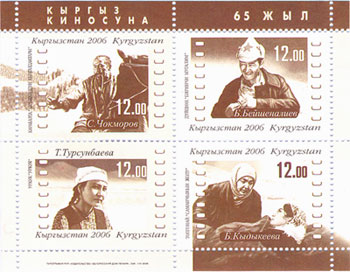 Stamp of Kyrgyzstan